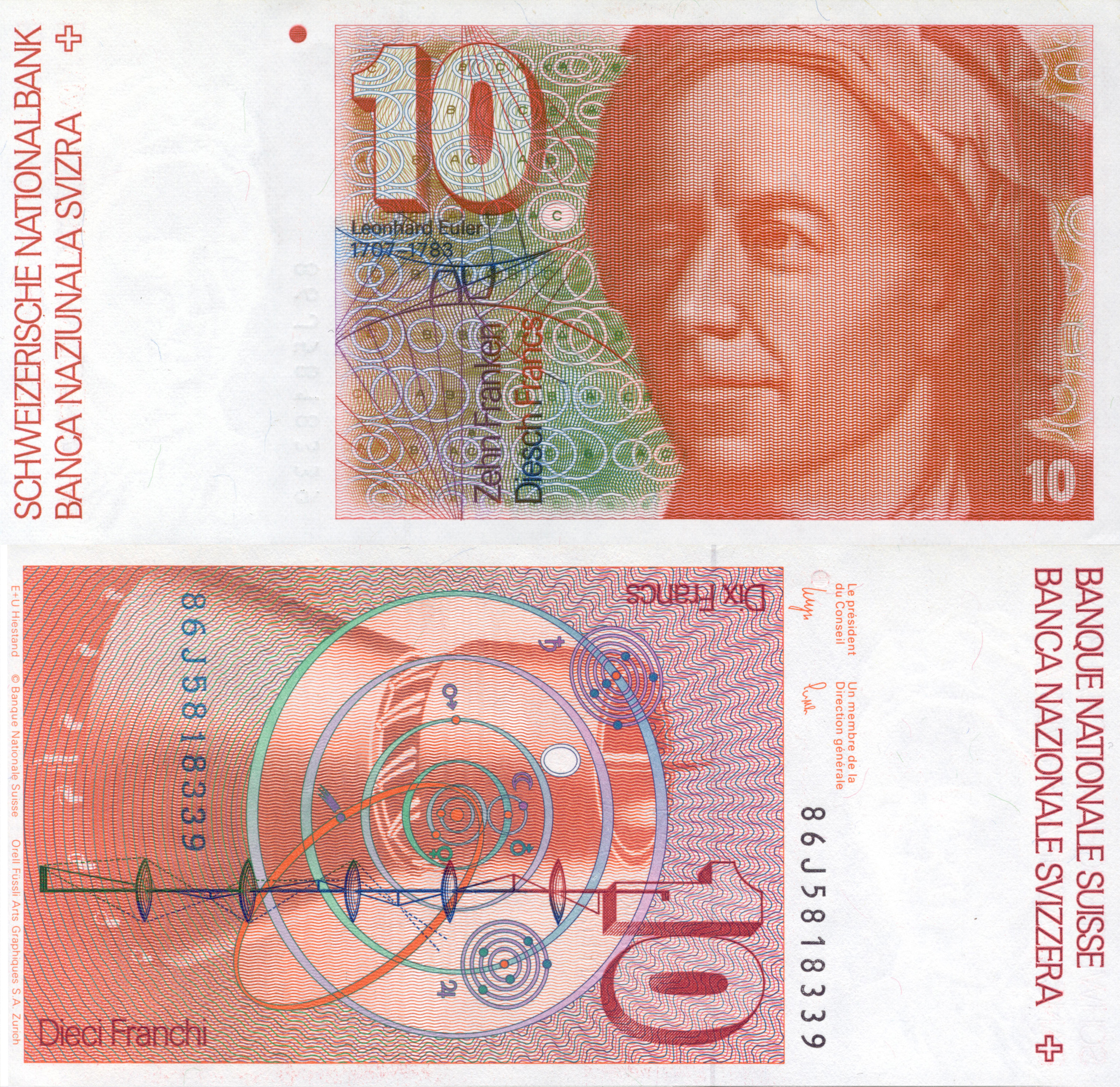 Front and back of the 10 swiss franc banknote honoring Leonhard Euler